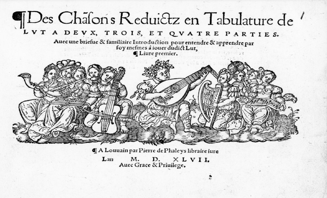 Title page of 'Des chansons reduictz en tabulature de lut a deux, trois et quatre parties' published in Leuven in 1547 by Phalesius and printed by Jacob Baethen